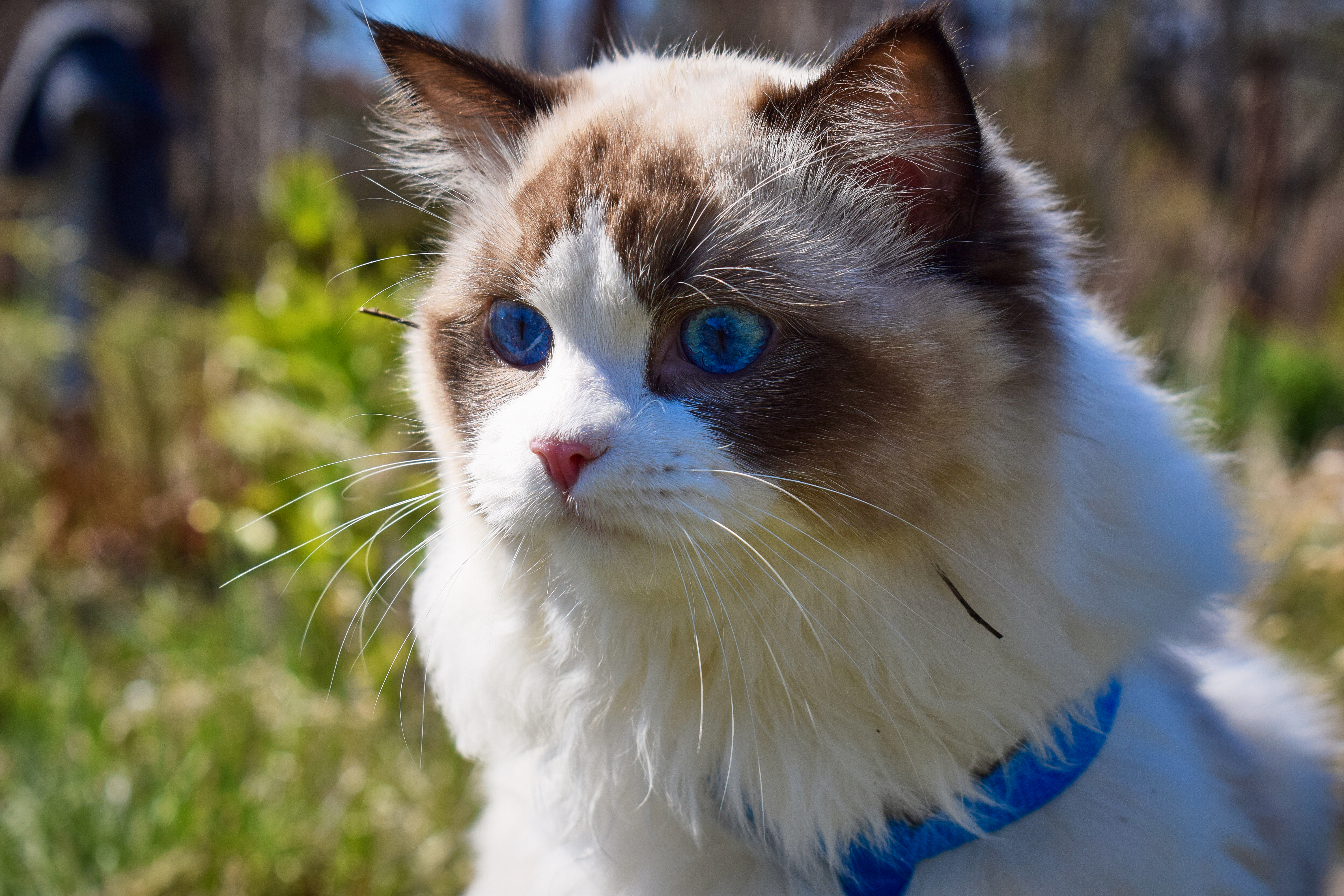 The breed was bred in the USA in the 1960s by Anne Baker, a breeder of Persian cats from California. Cats were selected according to the mildest nature, as a result of which they can completely relax in the hands of a person, which gave the name of the breed. The average weight of cats is 4-6 kg, adult cats 7-10 kg.